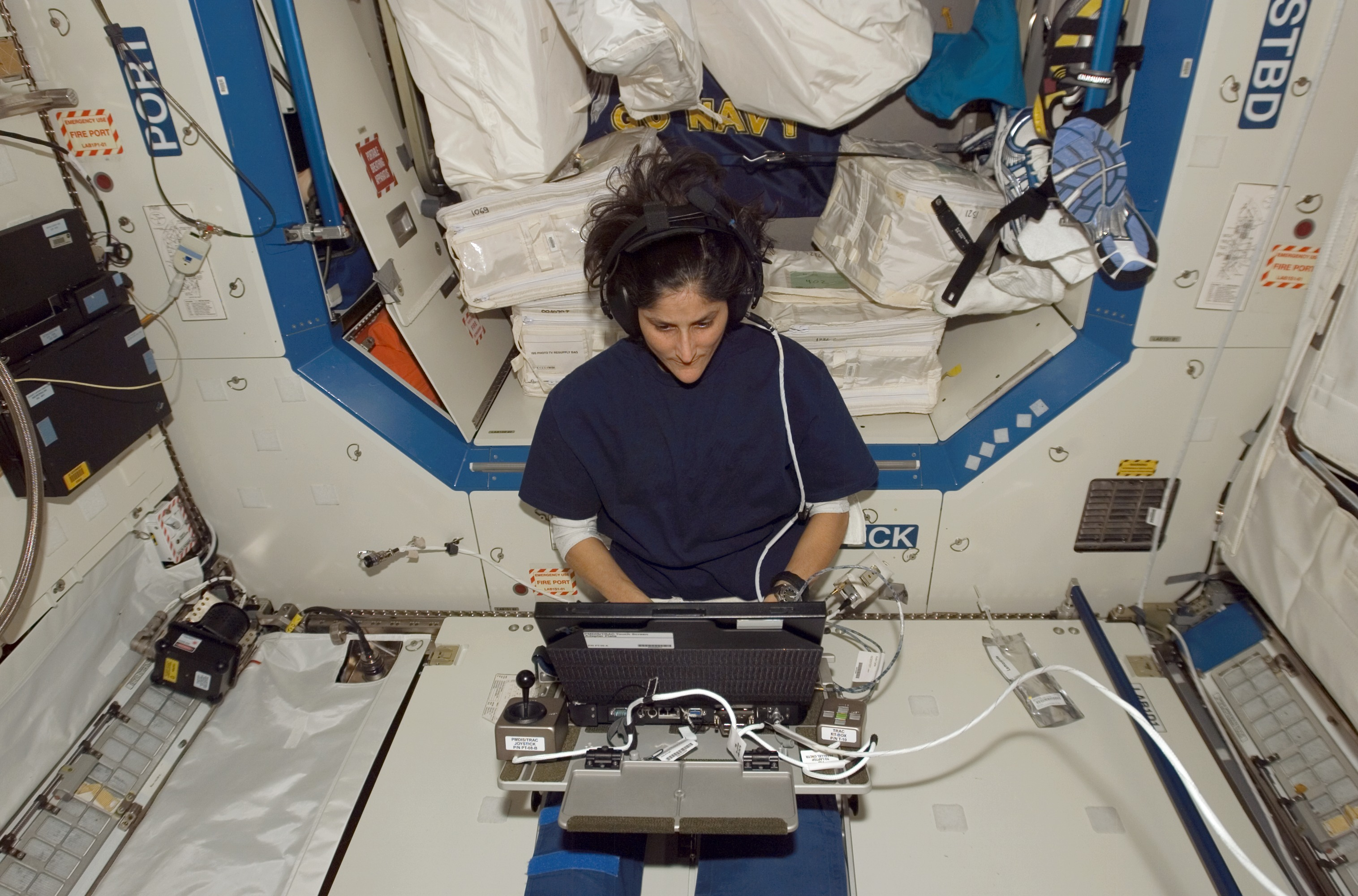 Astronaut Sunita L. Williams, Expedition 14 flight engineer, works with the Test of Reaction and Adaptation Capabilities (TRAC) experiment in the Destiny laboratory of the International Space Station. The TRAC investigation will test the theory of brain adaptation during space flight by testing hand-eye coordination before, during and after the space flight.